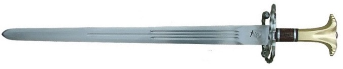 Katzbalger - image created by cropping Tigrisnaga's original picture